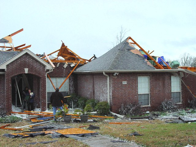 Tornado damage images at a subdivision of Little Rock, Arkansas on April 3, 2008. Several tornadoes affected central Arkansas from a lone supercell that developed during the evening hours.